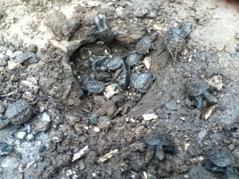 Common snapping turtle (Chelydra serpentina) babies emerging from the hole in the ground where their mother had laid the eggs in the late spring or early summer.